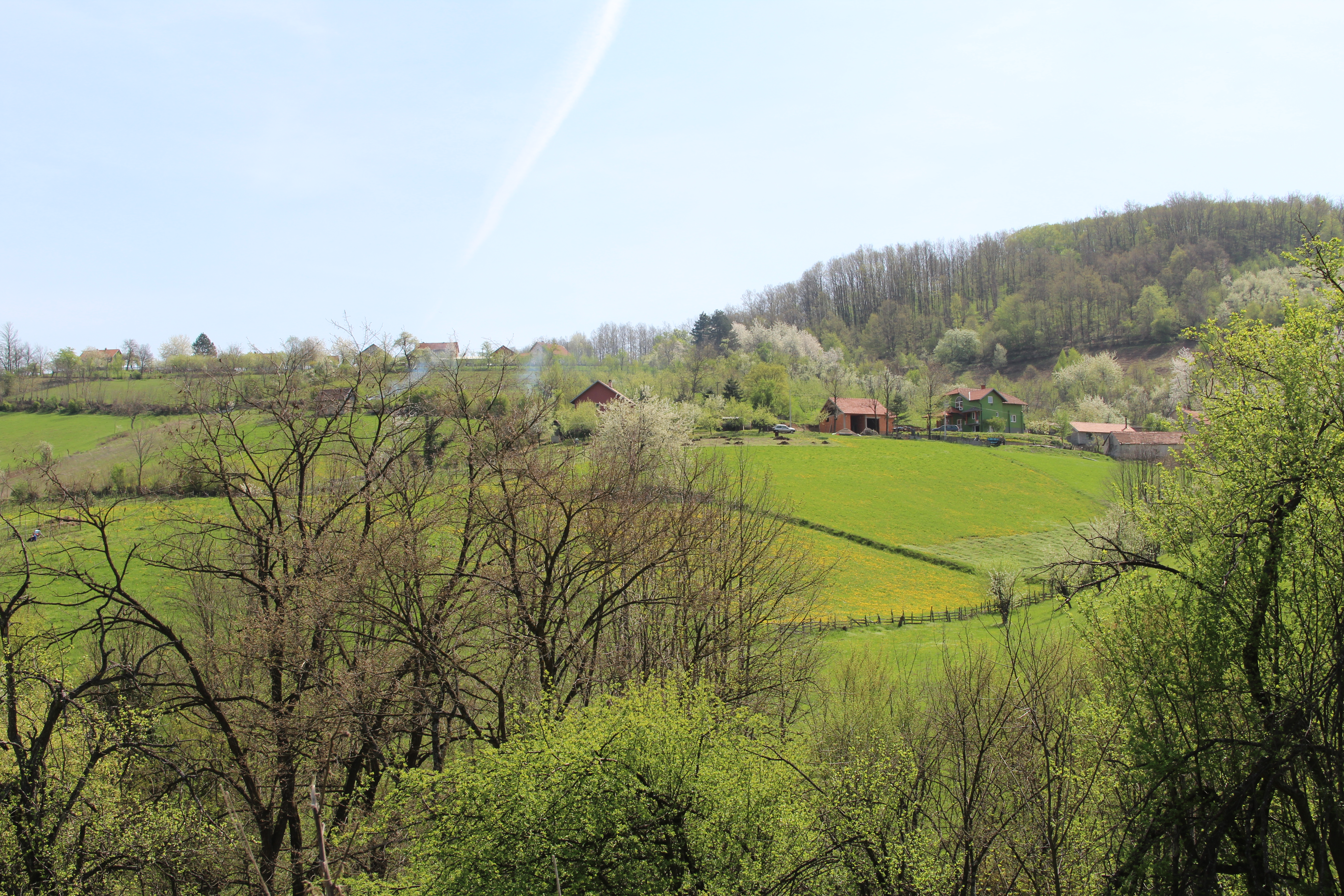 Tubravic village - Municipality of Valjevo - Western Serbia - Panorama 31